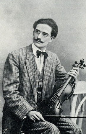 António Tomás de Lima (1887-1950), Portuguese composer and violinist, in a photograph published 1911